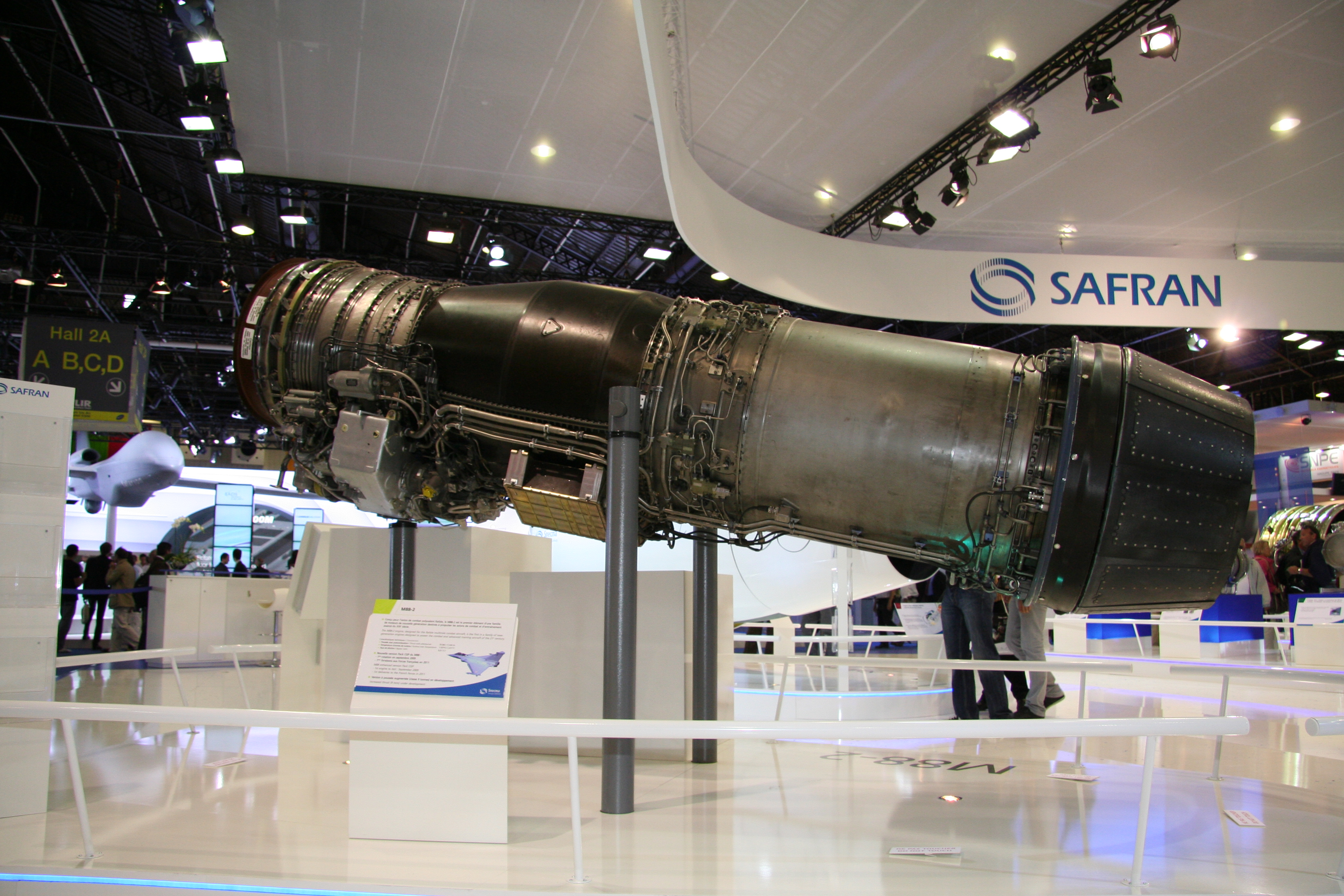 Snecma M88-2 - Paris Air Show 2009